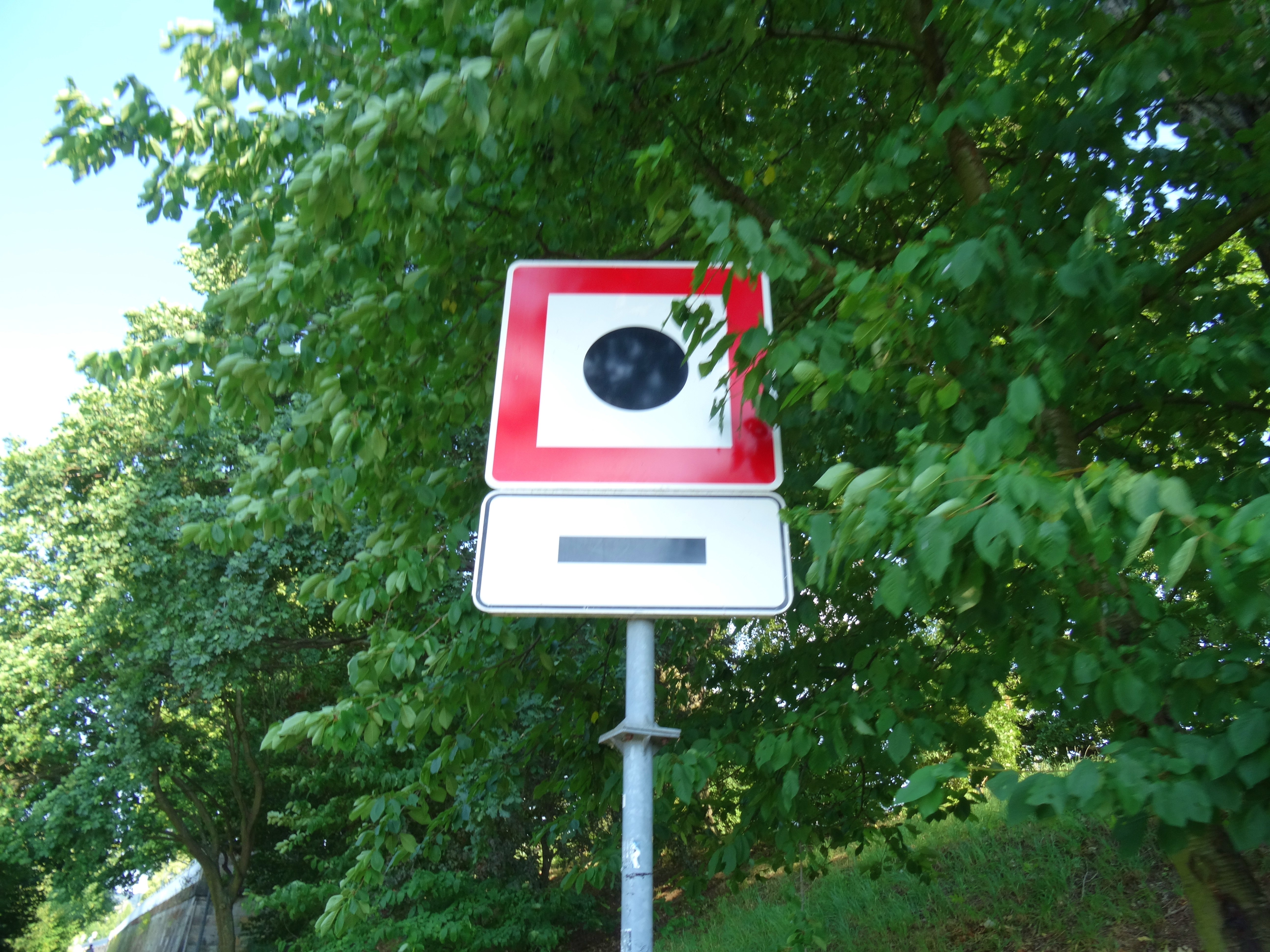 Elbe in Pirna